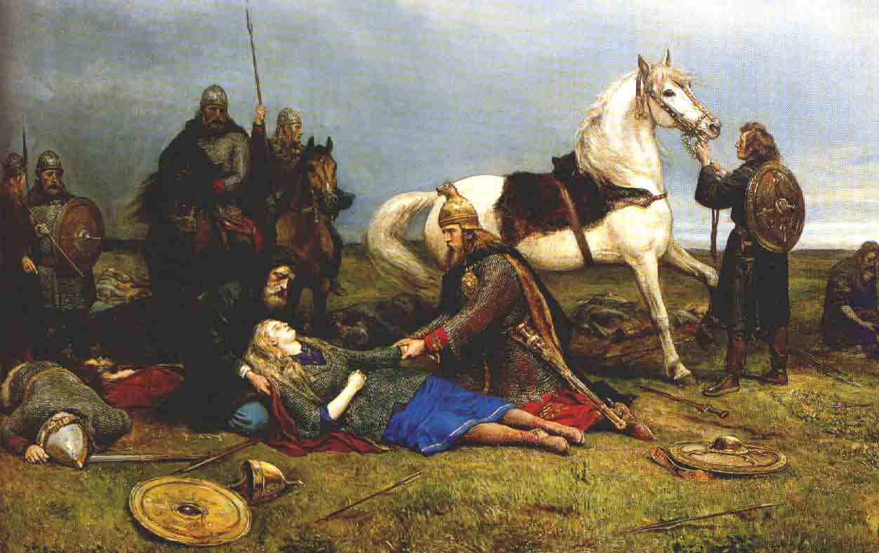 Hervör was a shieldmaiden in the cycle of the magic sword Tyrfing, presented in̪ the Hervarar saga, of which parts are found in the Poetic Edda. Greatly outnumbered, she died leading the army against the first assault of the Huns in an inheritance conflict between her brothers (Hlöd and Angantýr). The men in this image may represent her foster-father (Ormar) and brother (Angantýr); but as they mourn her in Árheimar (where Ormar flees to Angantýr with a report of the invasion and defeat) exactly this scene does not occur in the saga.